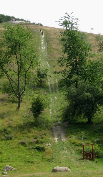 The path to the top of Aborrebjerg, a hill at Møns Klint, Denmark.